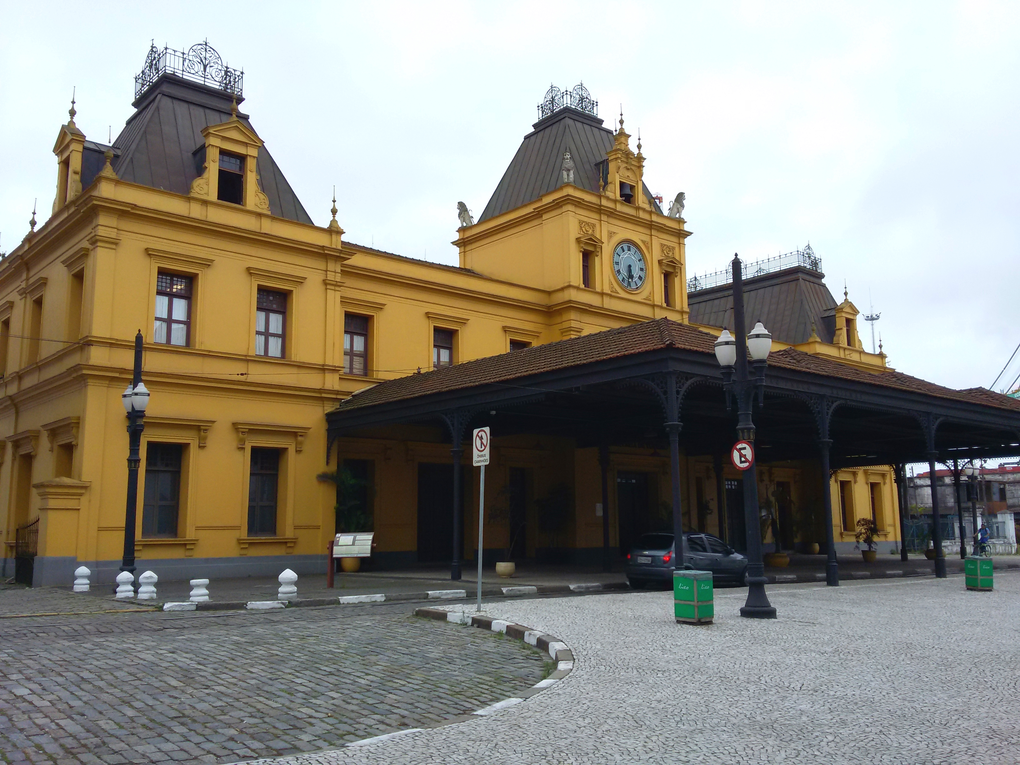 Valongo Train Station in Santos, Brazil